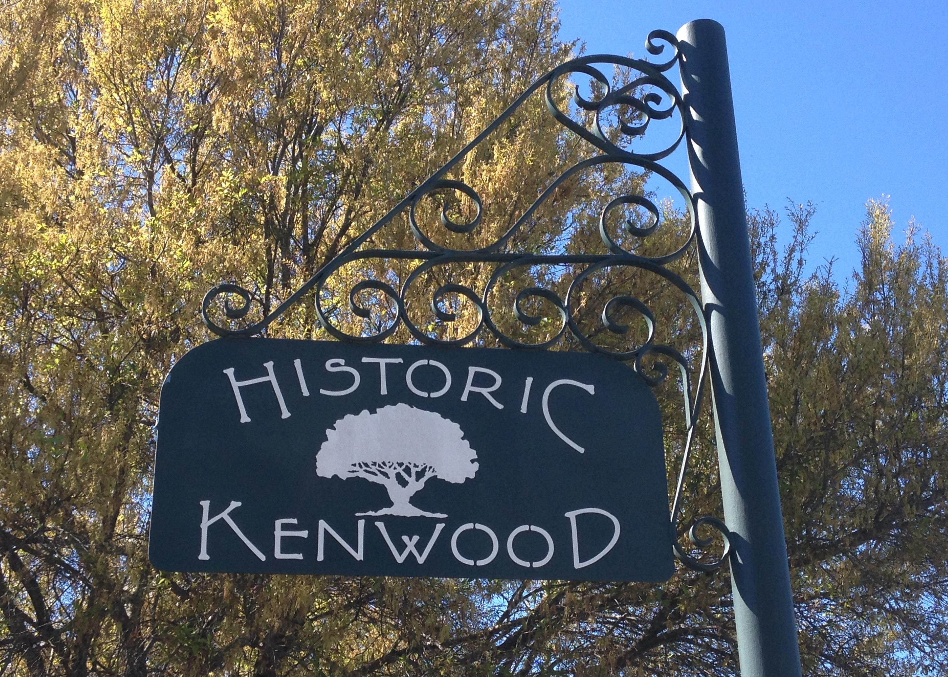 Example of the street signs found in the Kenwood Historic District, St. Petersburg, Florida, taken in February 2014.